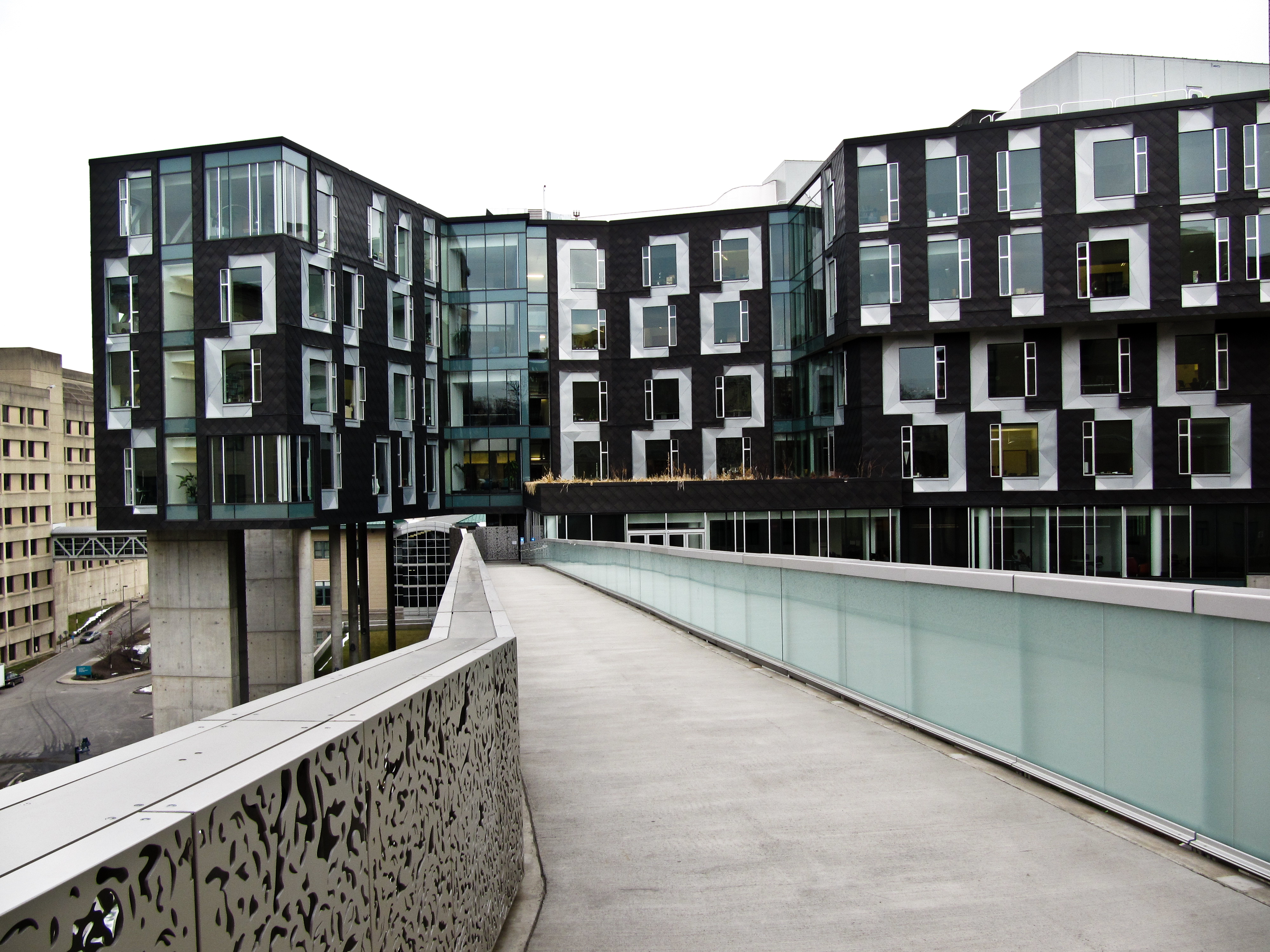 The Gates-Hillman Complex, home to Carnegie Mellon University's School of Computer Science.